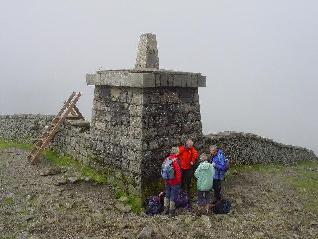 The summit of Slieve Donard. The summit of Slieve donard is crowned by a square shelter with a trig point on top. Sadly no views today. Picture taken from the Great Cairn nearby.